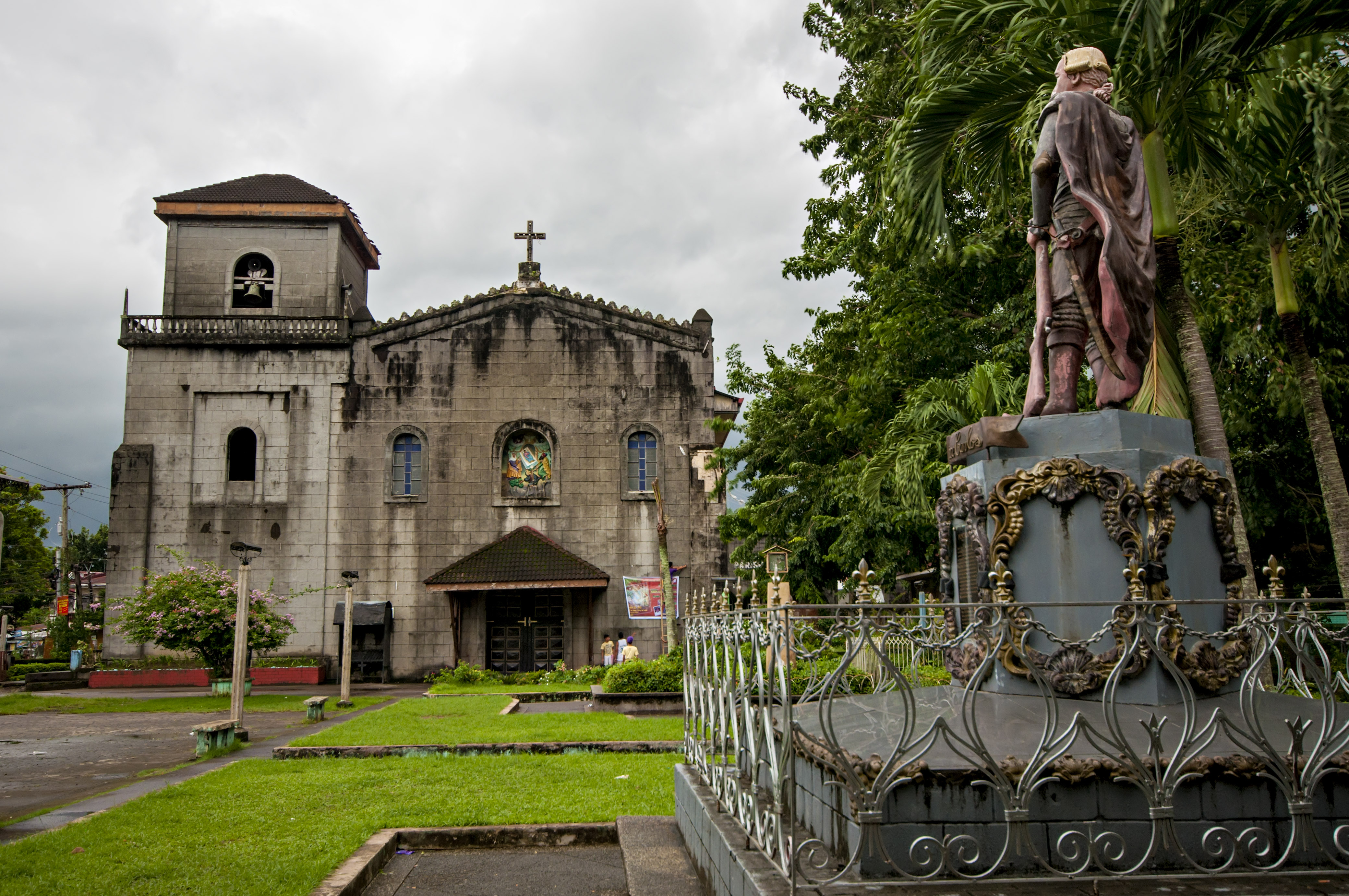 Natividad dela Virgen Maria Church of Pangil, Laguna, Philippines